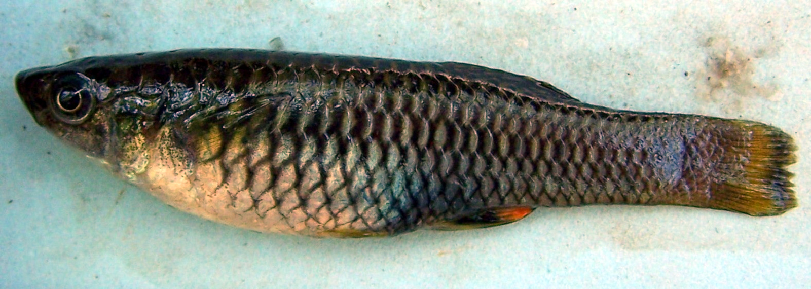 Taken from Quebrada Azul, Guanacaste, Costa Rica